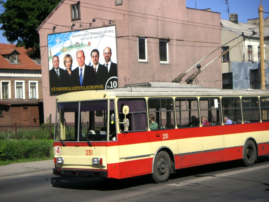 Party agitation in Kaunas 2004